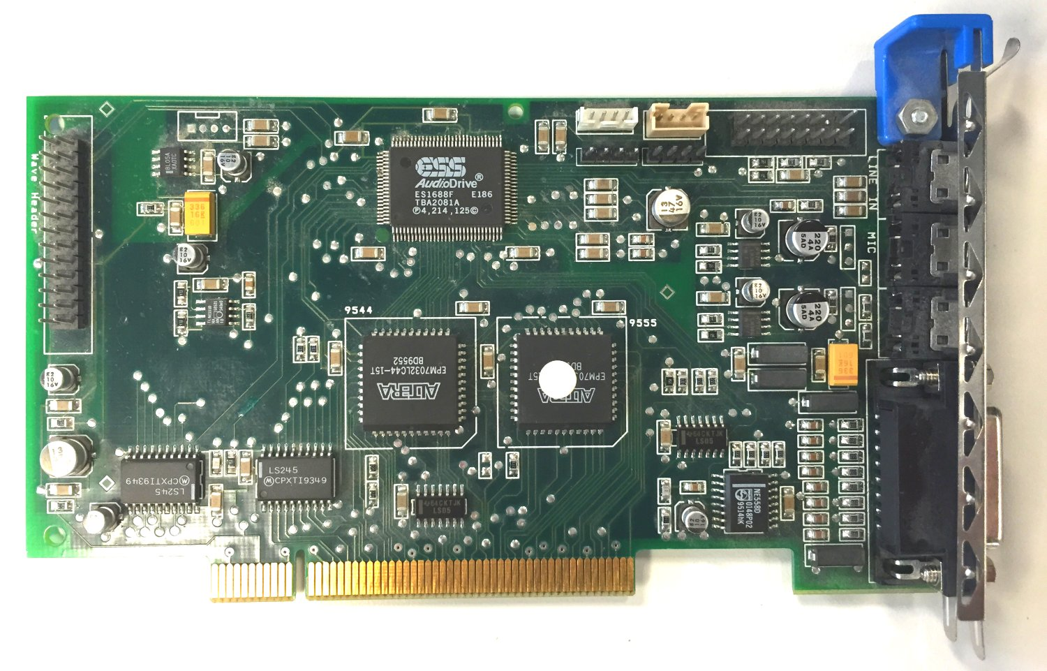 The ChipChat 16, a MicroChannel sound card which featured the ESS AudioDrive-- allowing ESS's ESFM for FM Synthesis and PCM audio output.